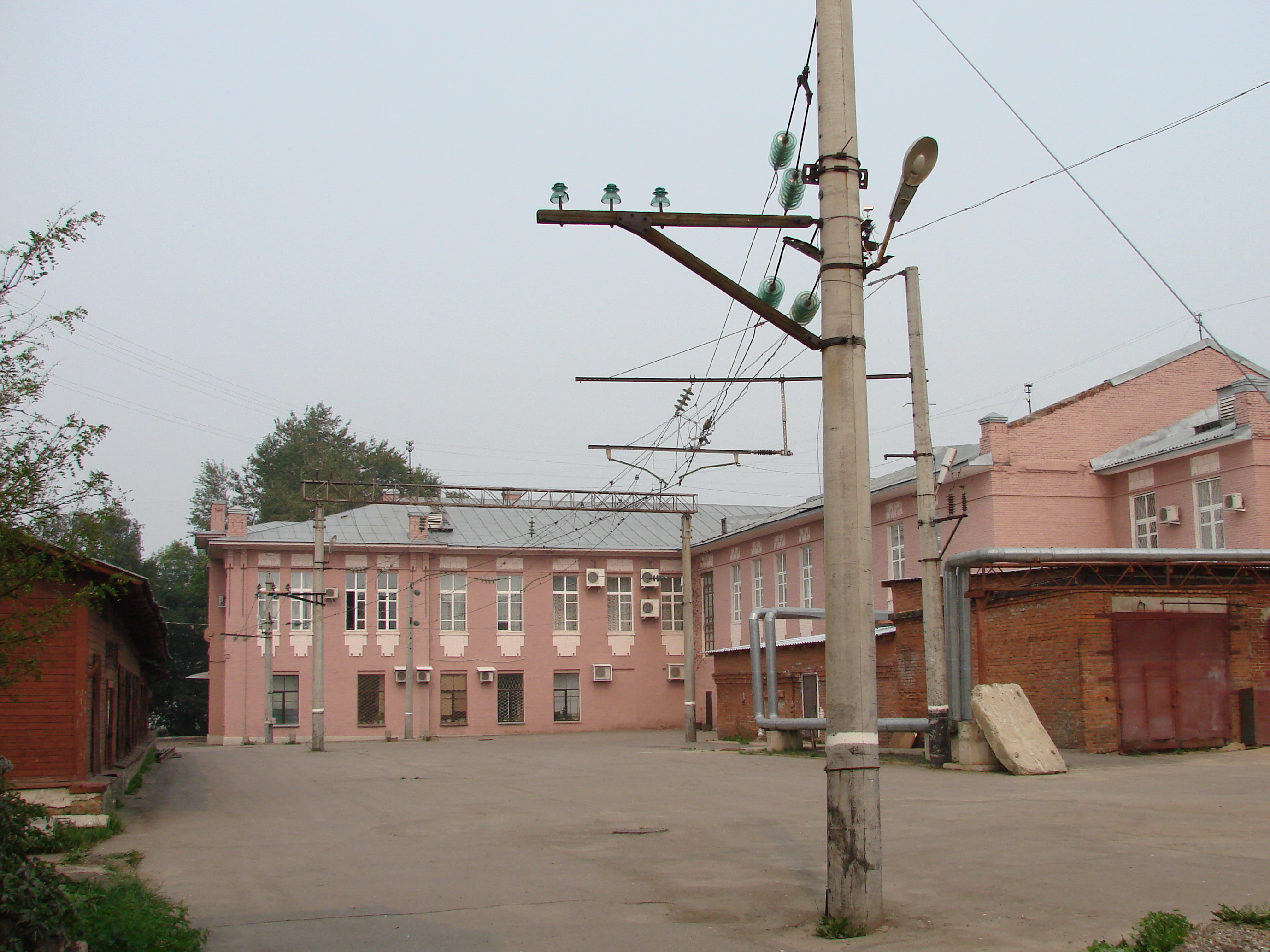 Russia, Vologda, Vologda Railway College, polygon maintenance and repair of power supply devices